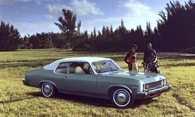 1973 Chevrolet Nova Coupe